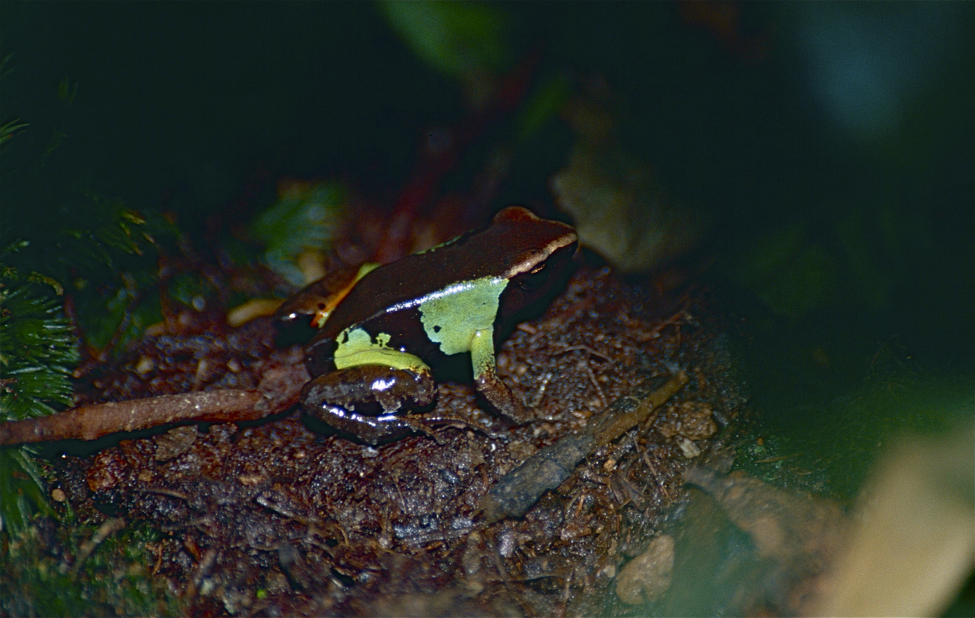 Réserve Peyrieras, Moramanga, MADAGASCAR Scanned Slide from 1998